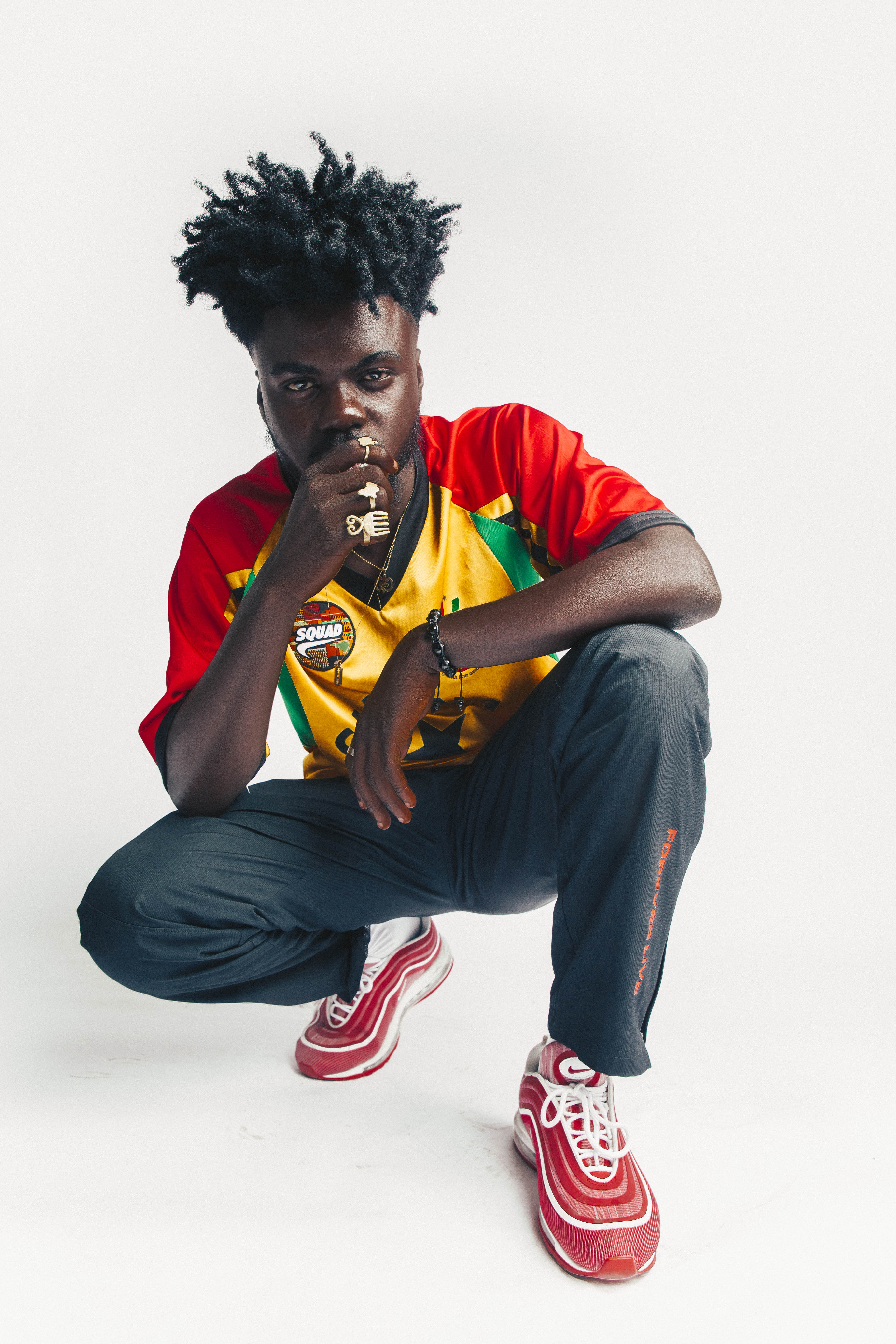 Portrait of Prince Gyasi a visual artist from Ghana.